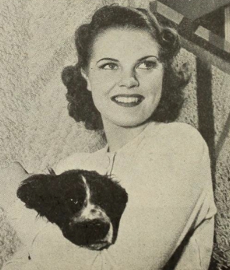 American actress and singer Ruth Terry (b. 1920) from Modern Screen, 1940